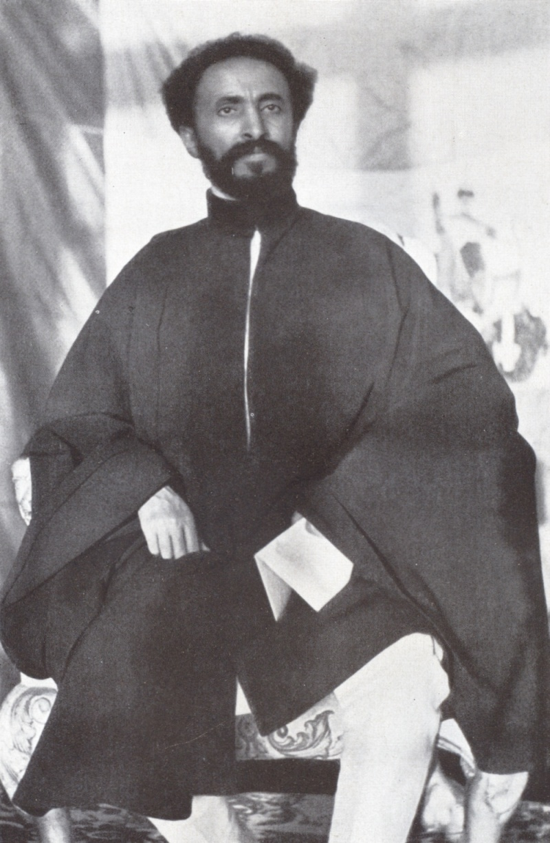 Ethiopian Emperor Haile Selassie in February 1934. Photo by Swiss pilot and photographer Walter Mittelholzer (1894-1937).